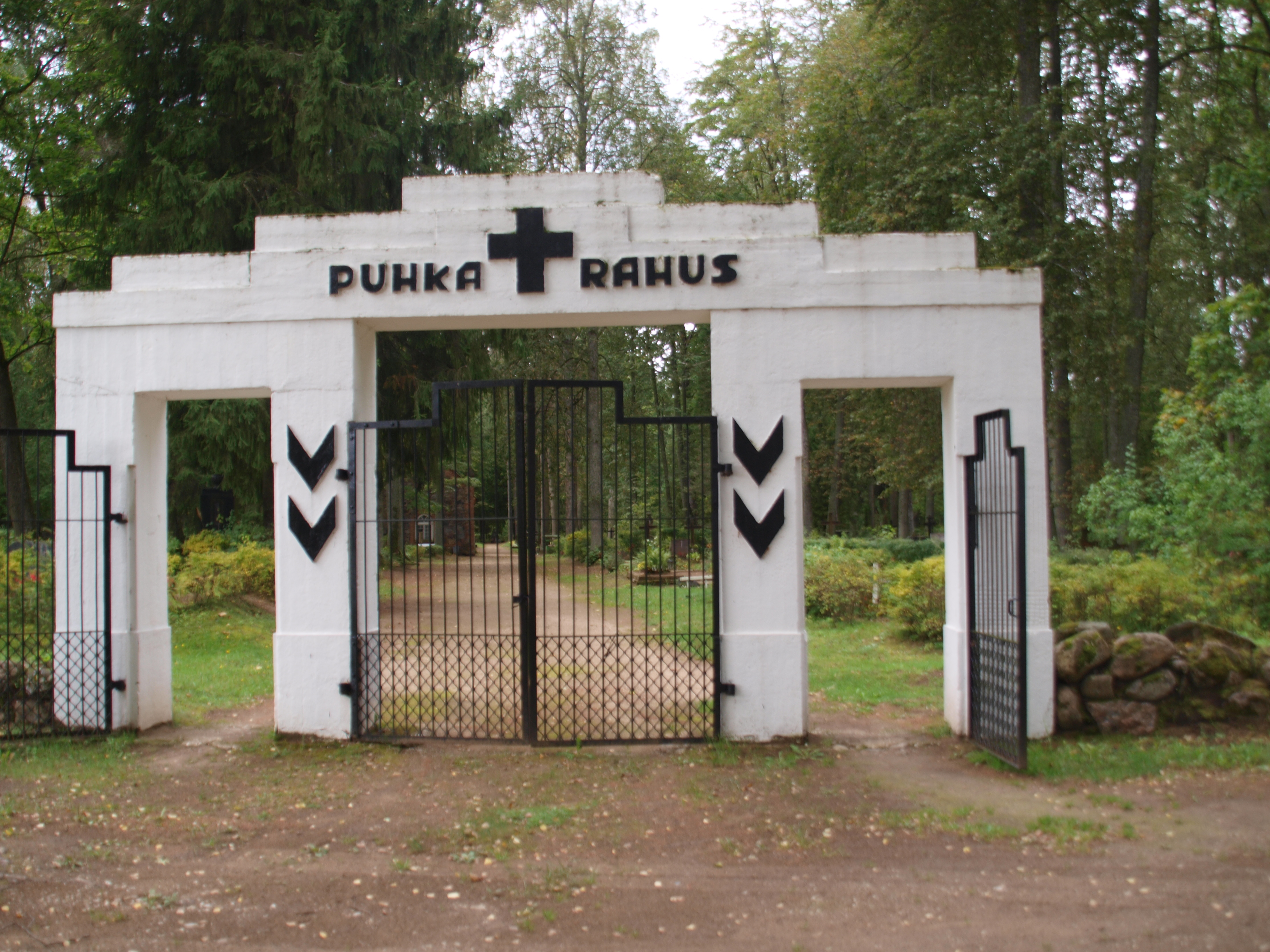 Gate of Rannu cemeteryEesti: Rannu kalmistu värav